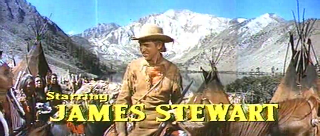 Cropped screenshot of James Stewart from the trailer for the film How the West Was Won